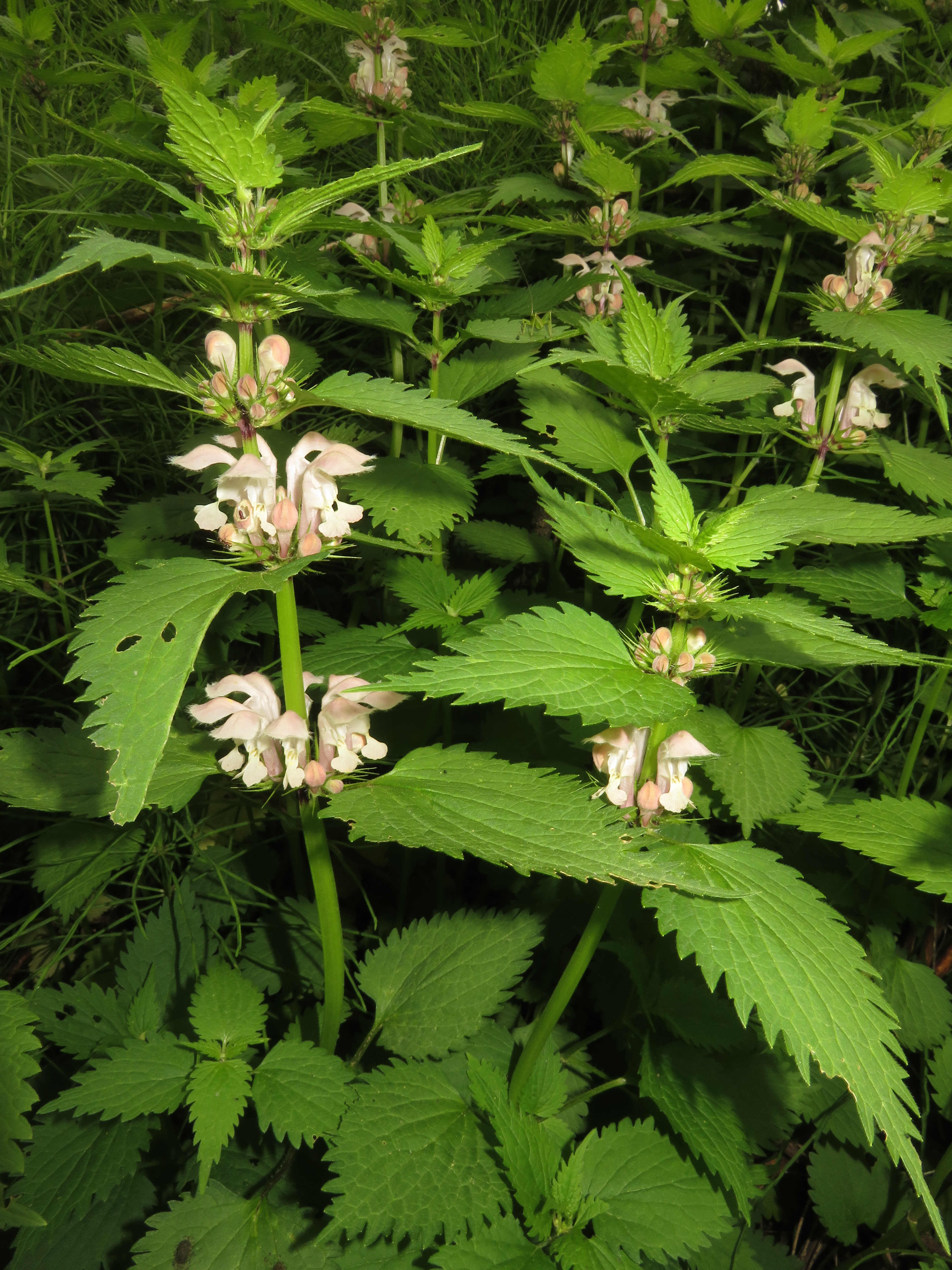 Lamium album var. barbatum, Aizu area, Fukushima pref., Japan